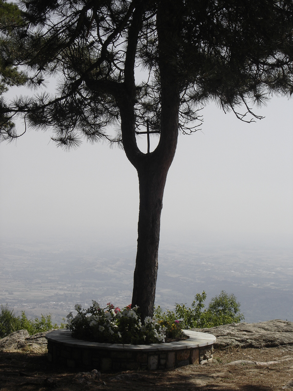 The pine tree with the iron cross, which Kosmas o Aitolos pinned into it, while visiting Pieria. The pinetree is on a highland at Ano Milia.